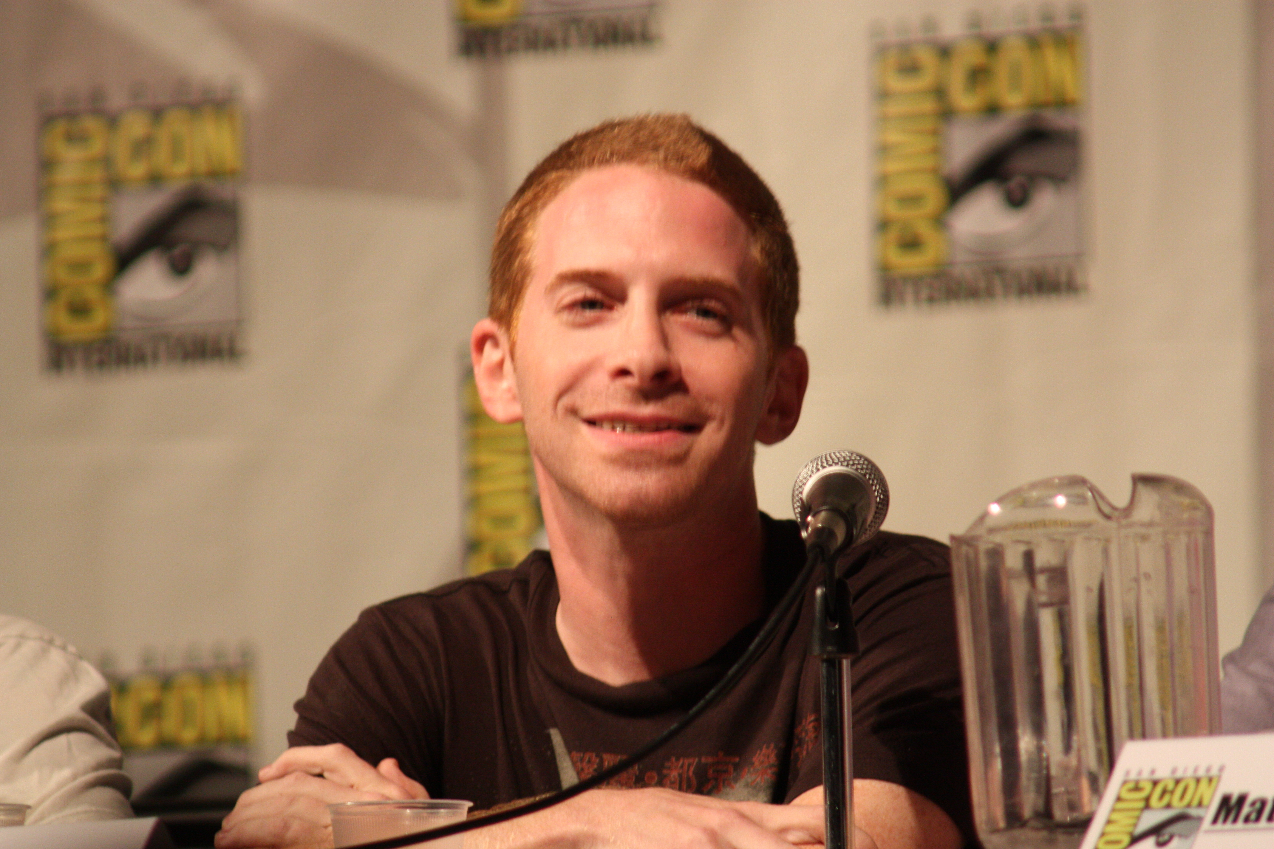 Seth Green at the Robot Chicken panel.